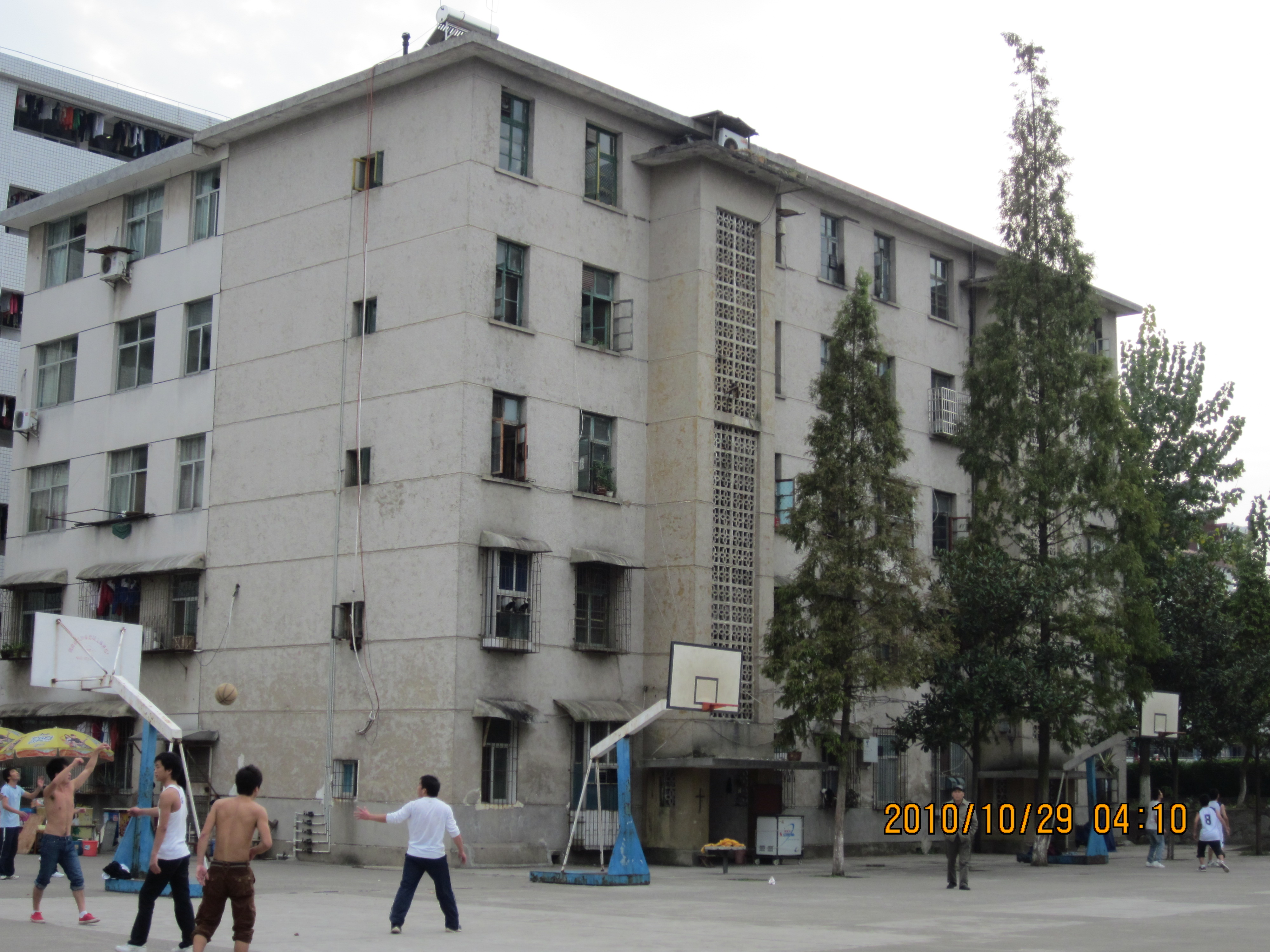 Zhangjiajie Institute of Aeronautical Engineering